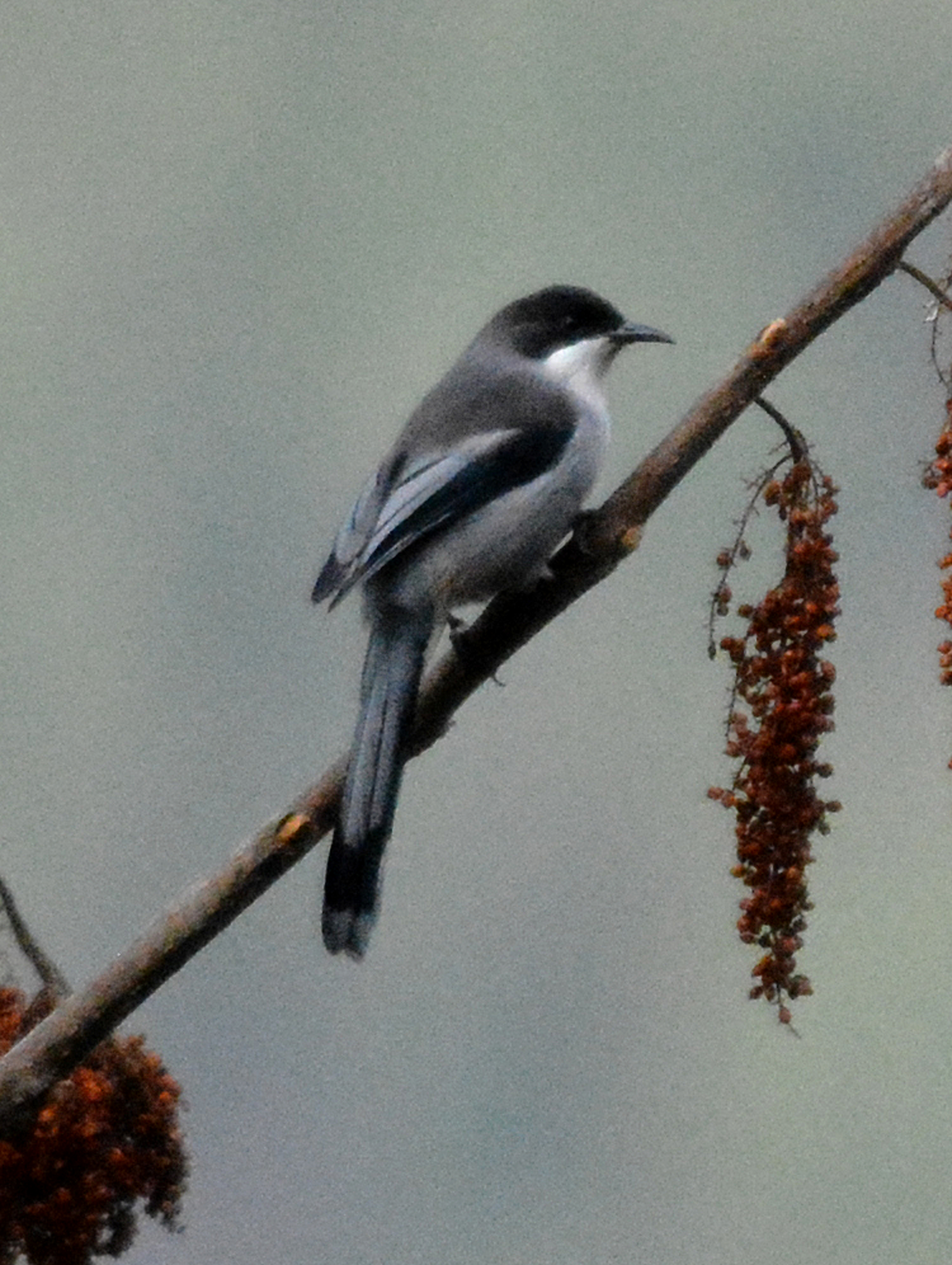 Grey Sibia Heterophasia gracilis. Clicked by Dr. Raju Kasambe in Lengteng Wildlife Sanctuary, Mizoram, India